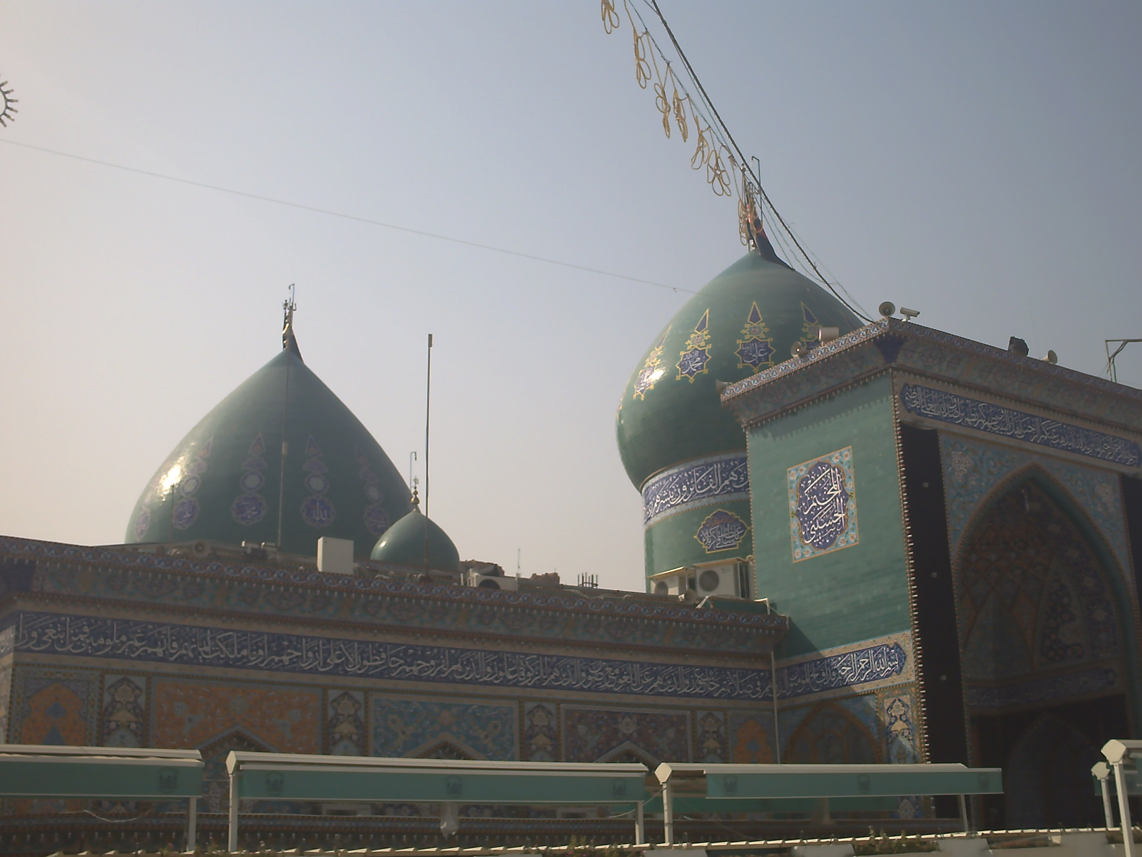 Khema-gah, Imam Husain Camp location ,Karbala